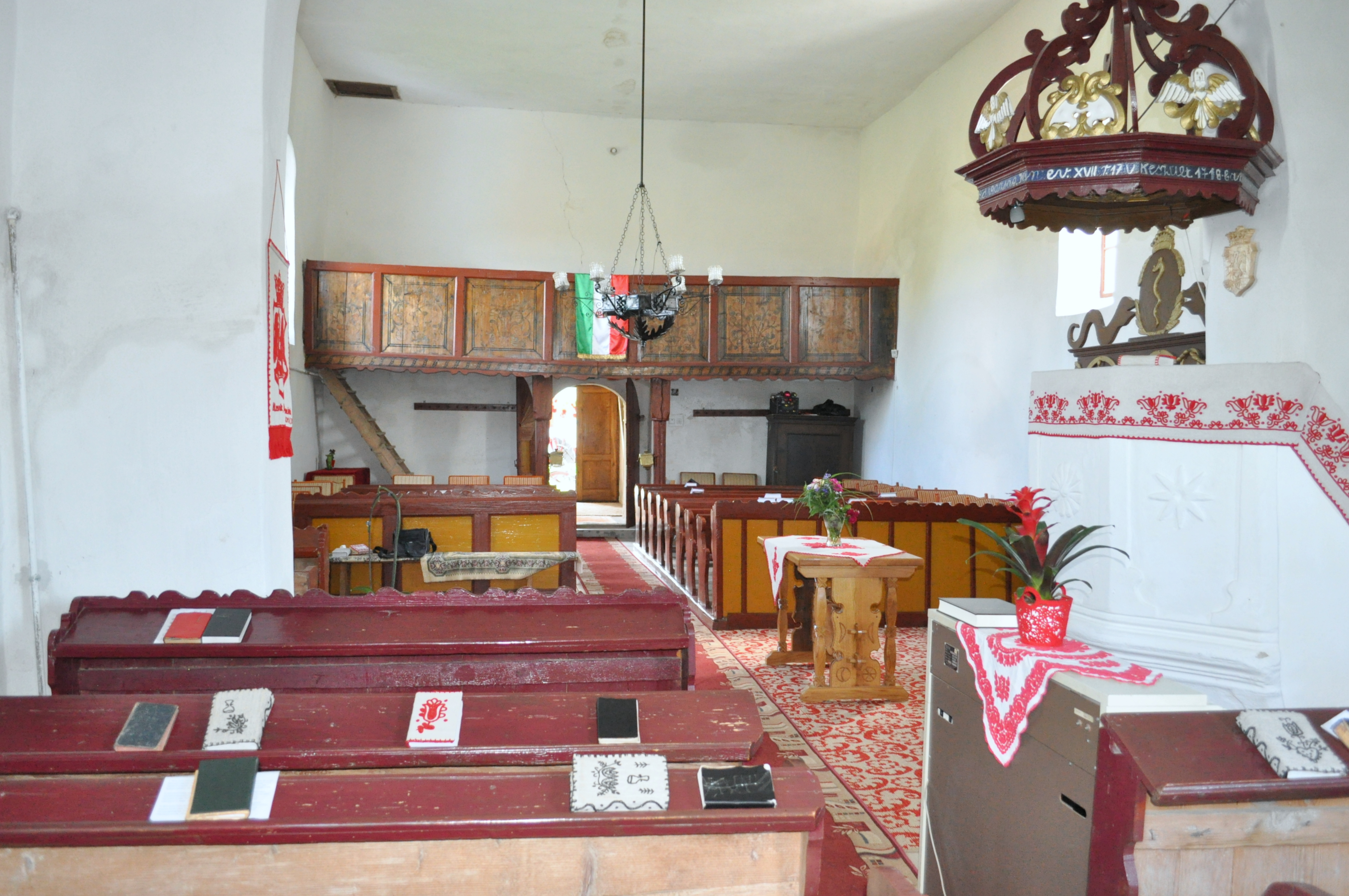 Reformed church in Alma, Sibiu county, Romania